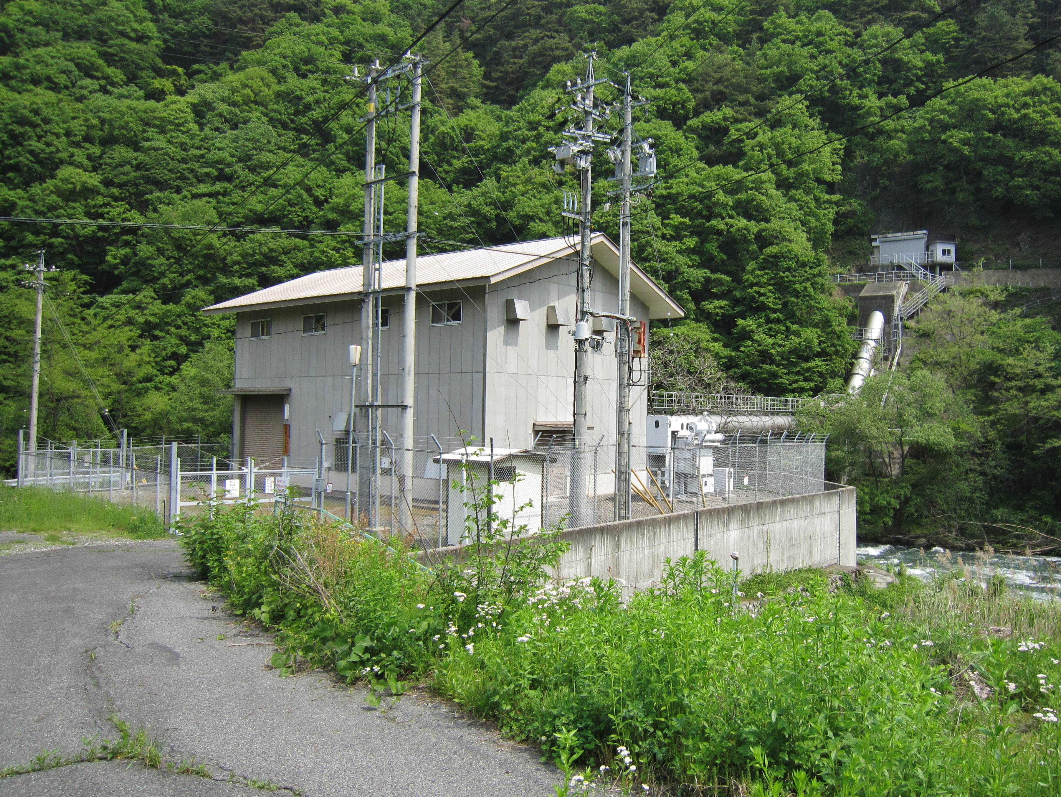 Hiyoshi power station.